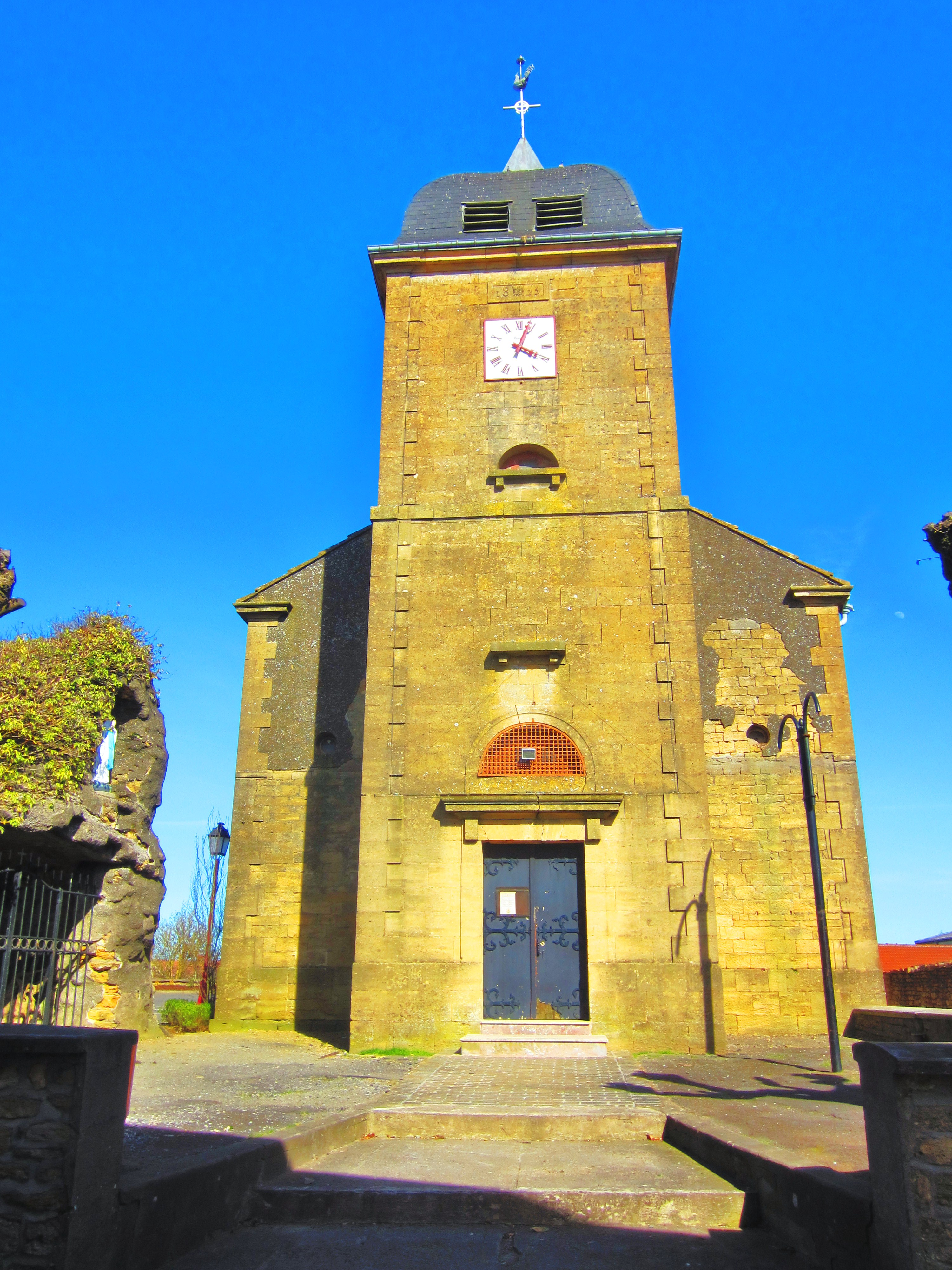 Cosnes Romain church